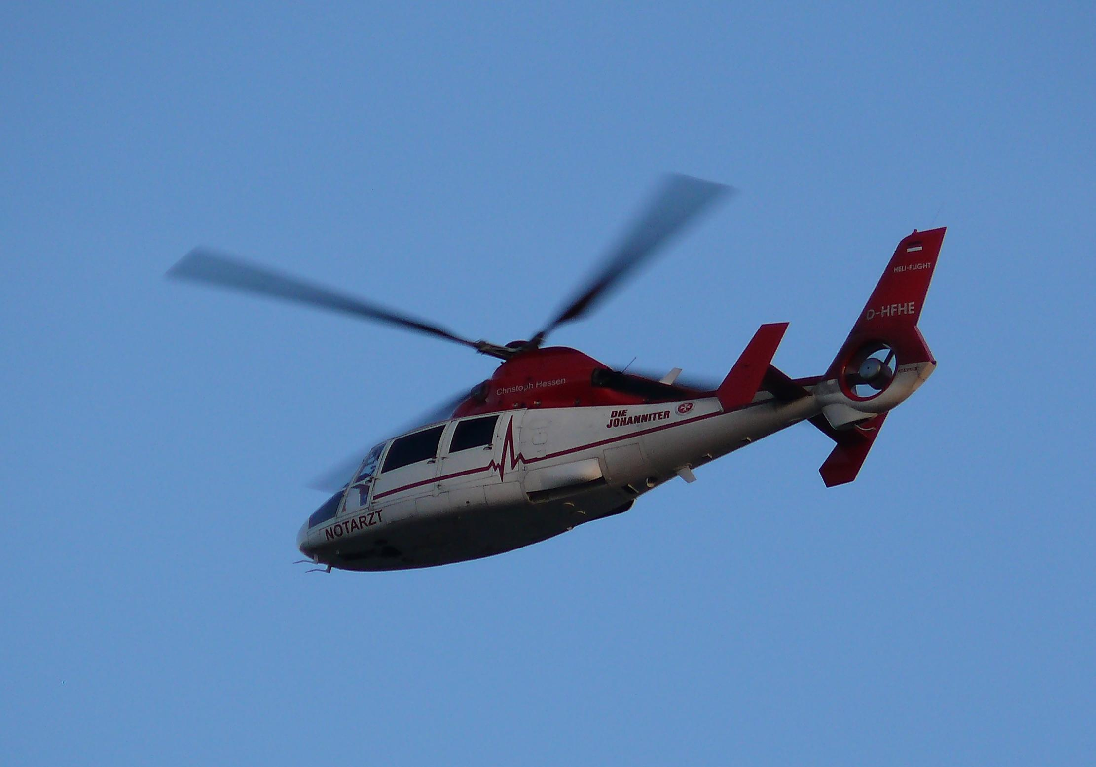 Medical Helicopter D-HFHE "Christoph Hessen" Johanniter ; Germany